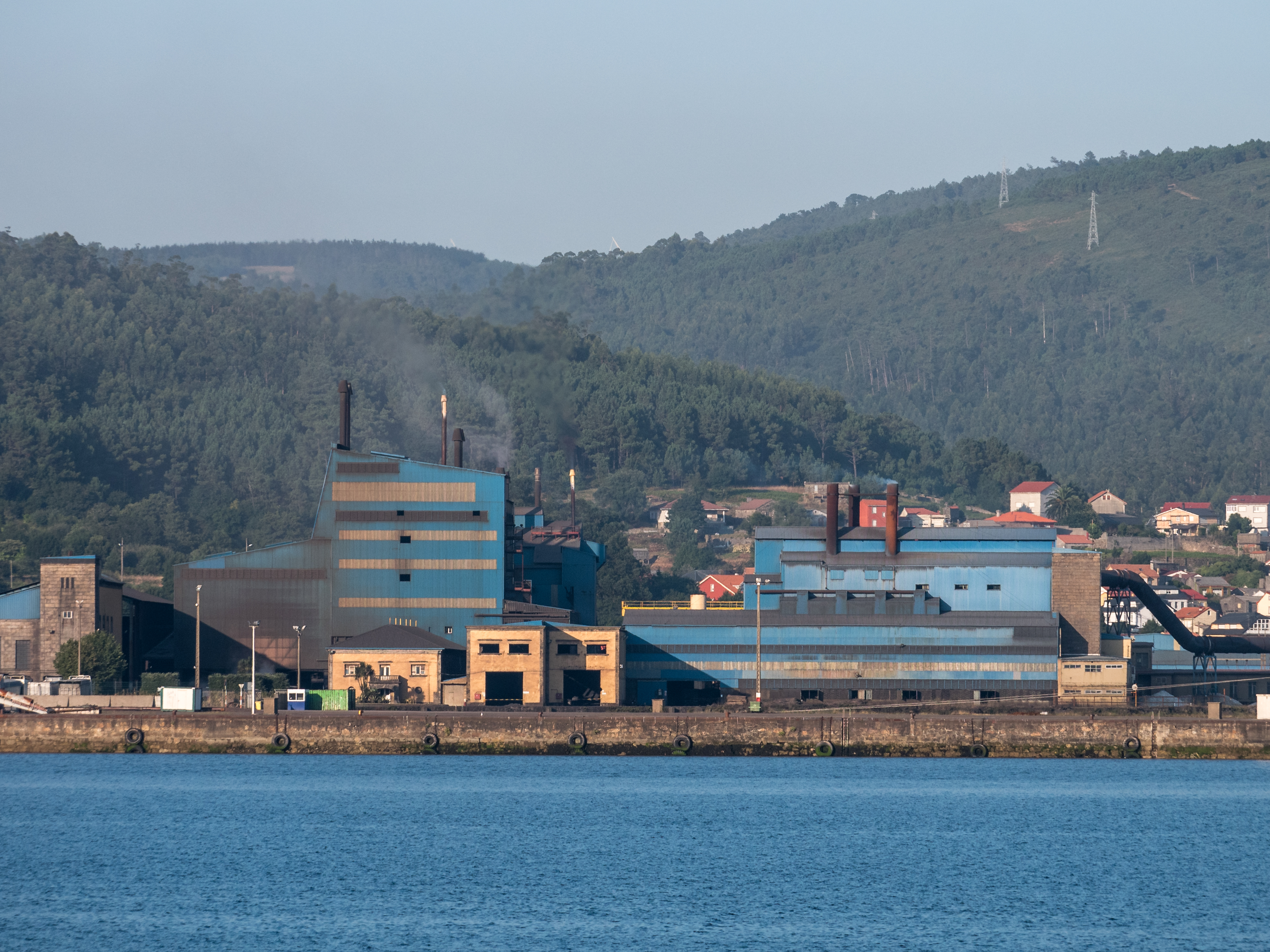 Port of Brent, quay and ferromanganese plant. Cee, La Coruña, Galicia, Spain